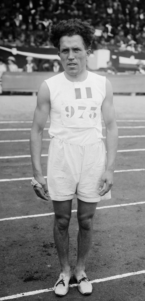 Photograph of Carlo Speroni